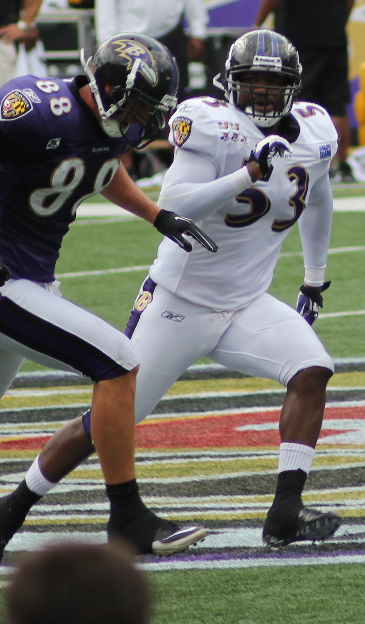 M&T Bank Stadium August 2011